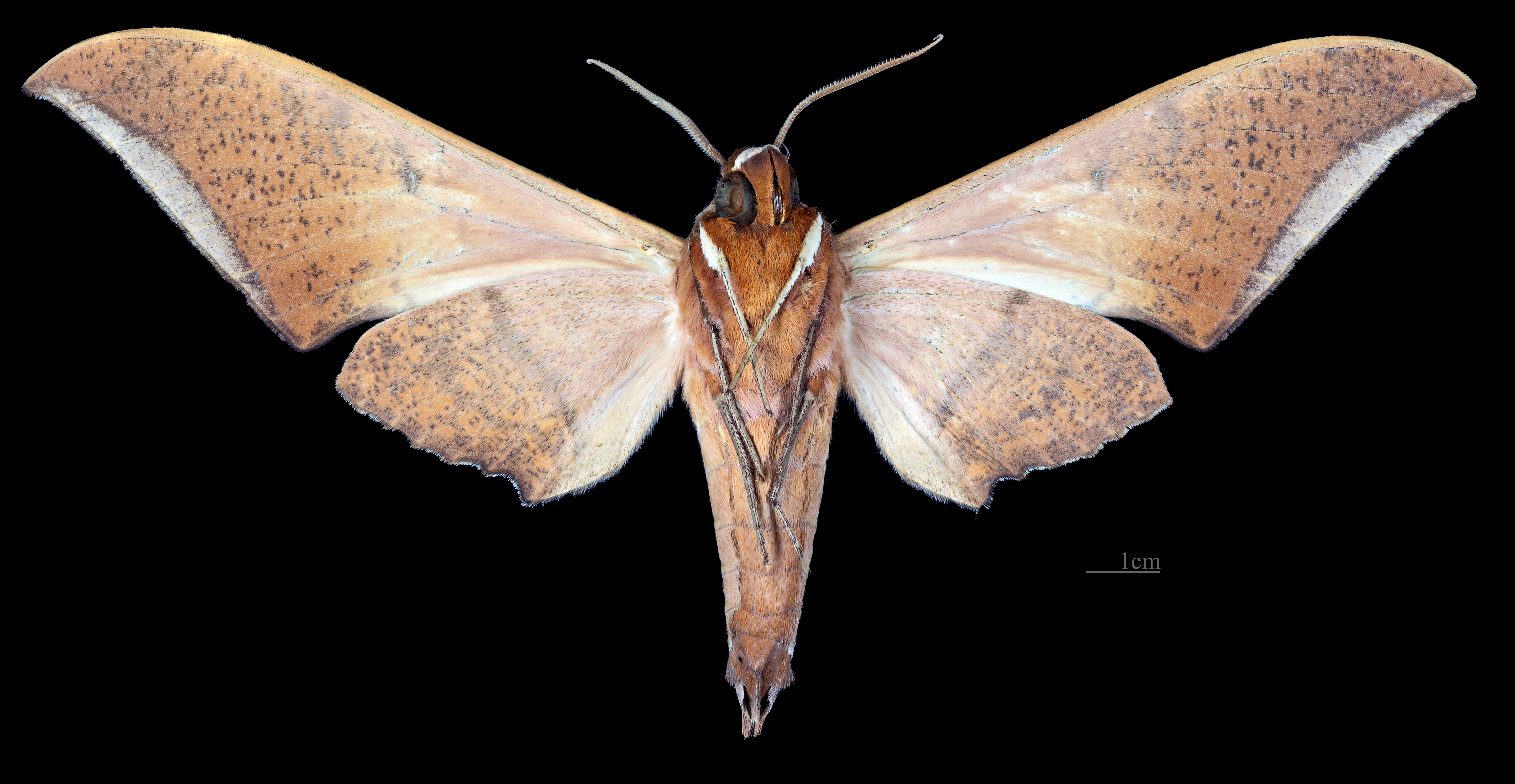 Ambulyx matti - △ Ventral side Collection of the Mathematician Laurent Schwartz